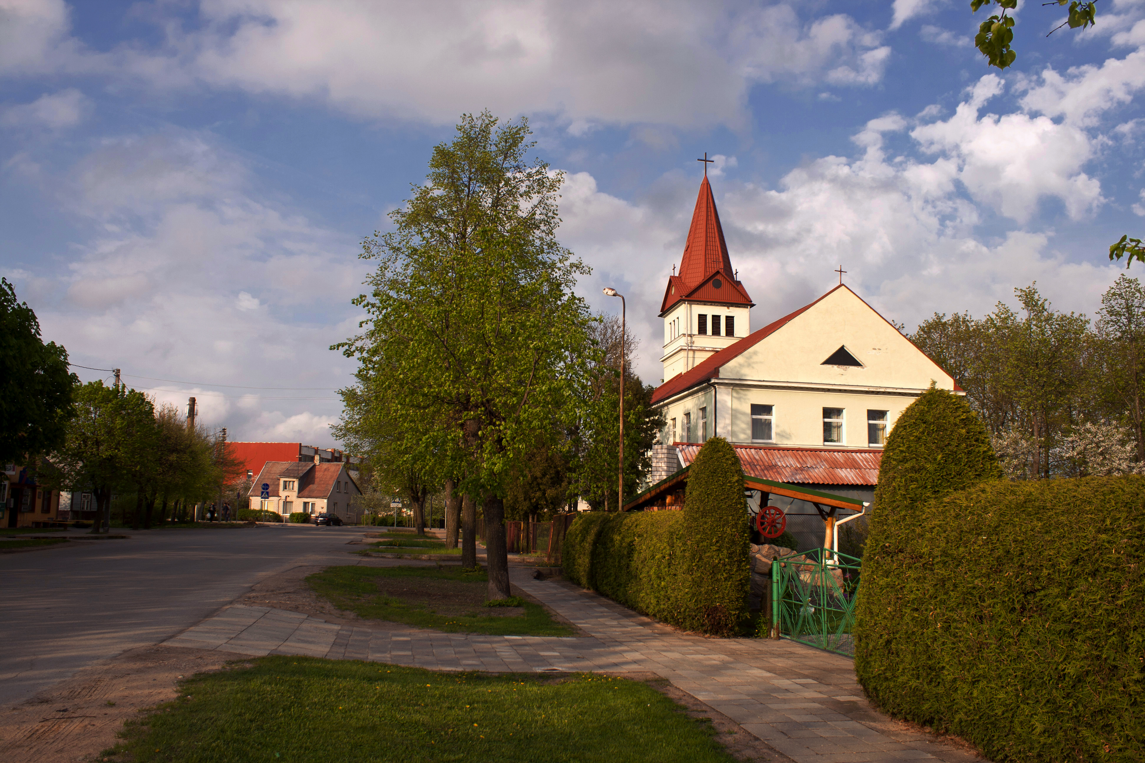 Mažeikiai church